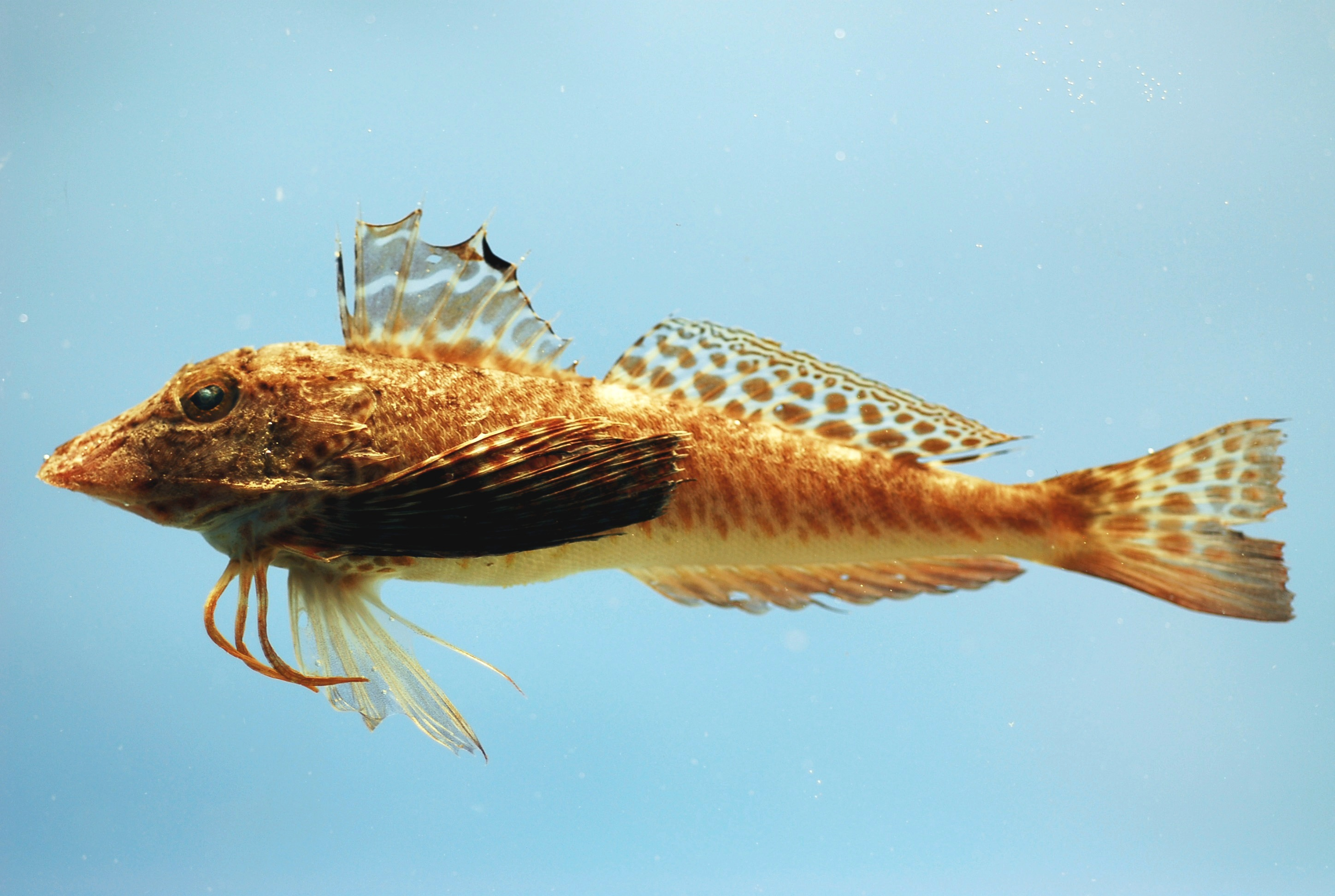 Leopard searobin ( Prionotus scitulus )